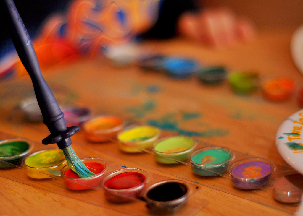 A palette of watercolours and a brush.